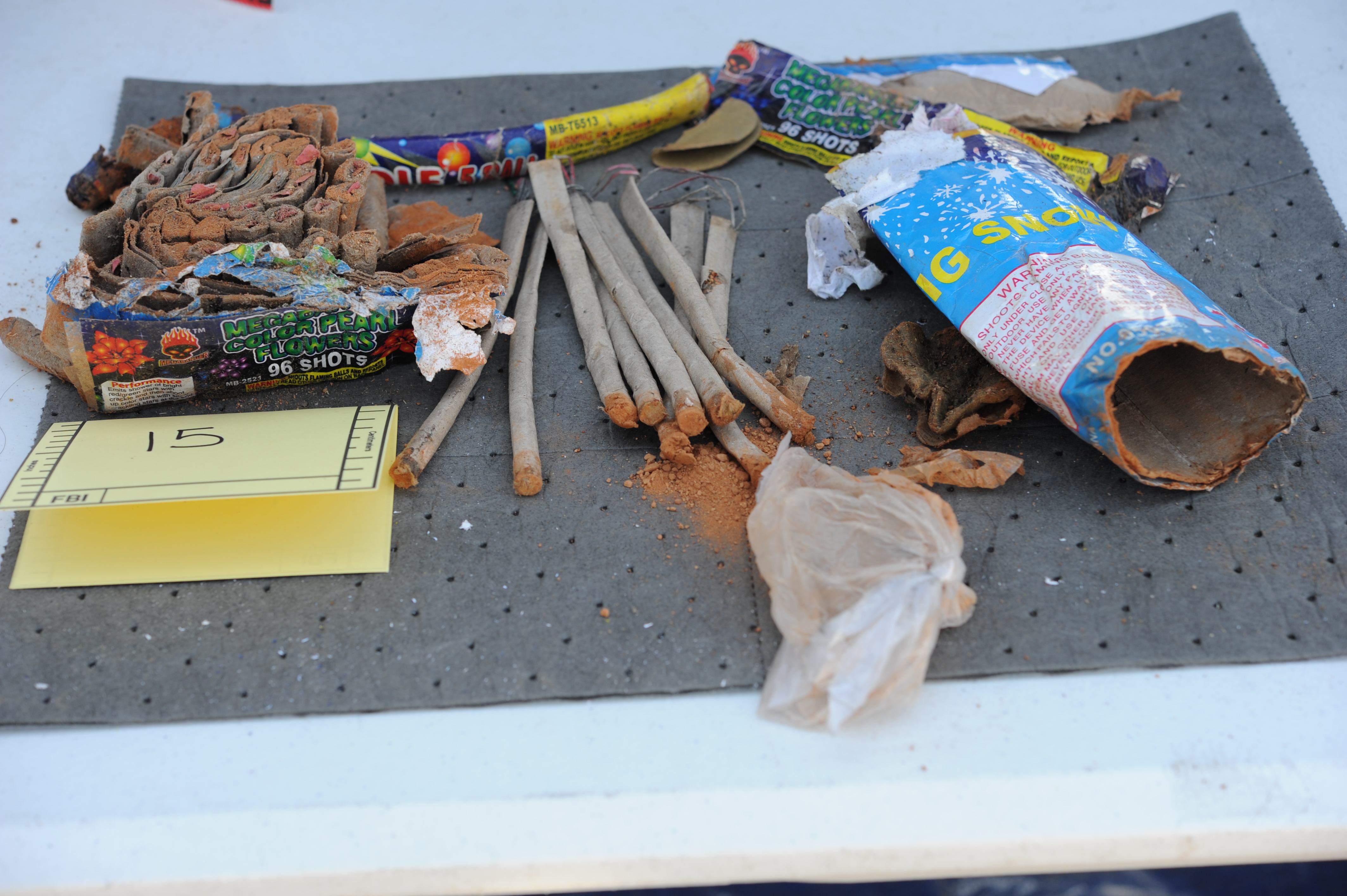 FBI photo of disassembled fireworks, which were recovered from a backpack inside a trash bag in a landfill near University of Massachusetts - Dartmouth campus. In an affidavit the FBI alleges friends of the suspect found the backpack and attempted to dispose of it for him. The image has been rotated to landscape but is otherwise unaltered.